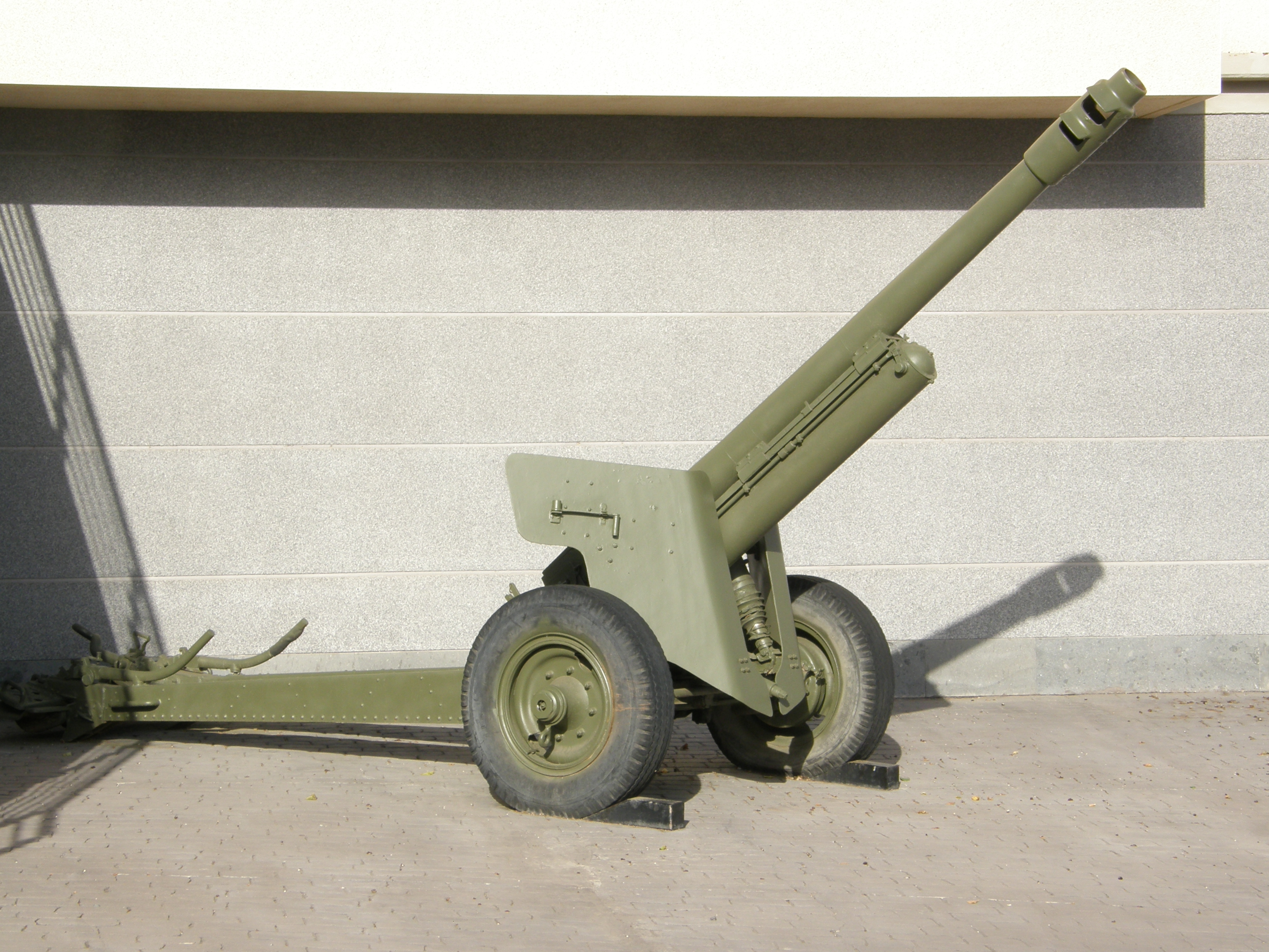 Obús Reinosa 105/26 R58 vista lateral en el RAAA-94 de LPGC 21/02/2013 This picture was taken at the 94 Anti-Air Artillery Regiment in Las Palmas, Spain